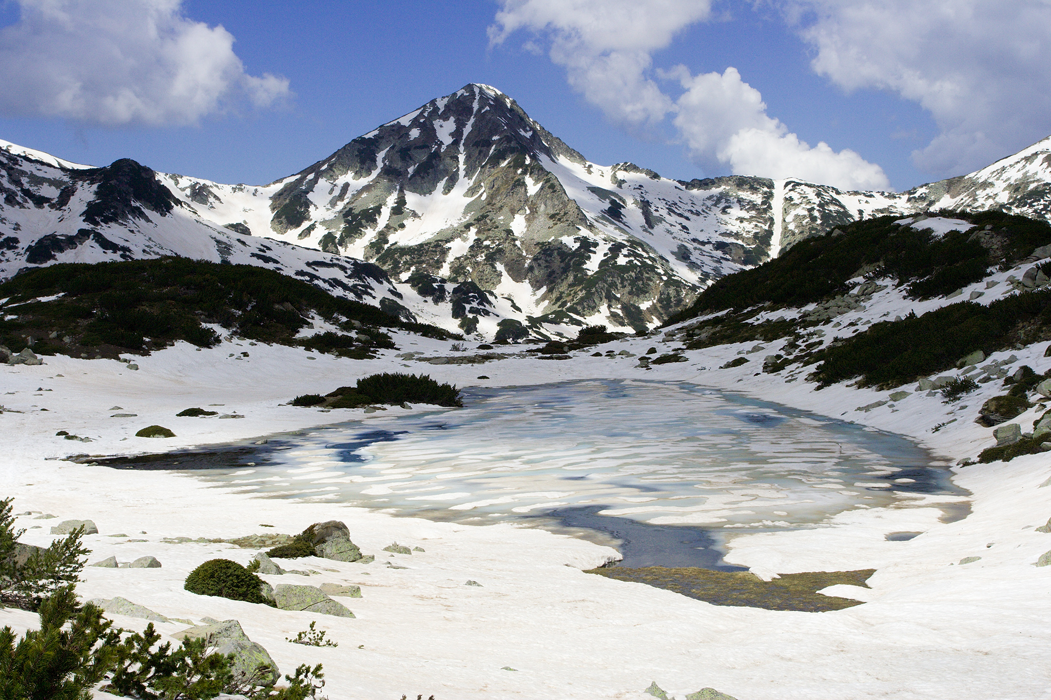 Zabeshkoto ezero & Muratov peak, Pirin mntn, Bulgaria